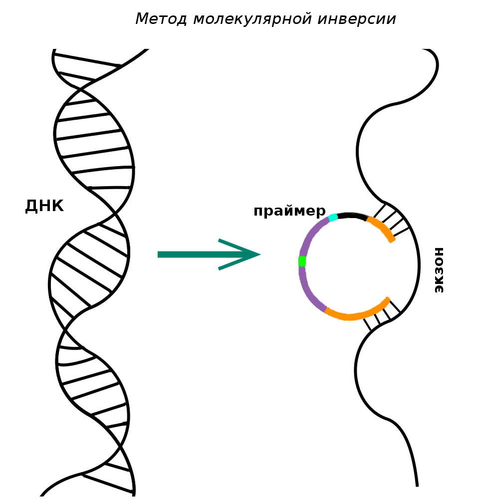 Molecular inversion method (in russian)